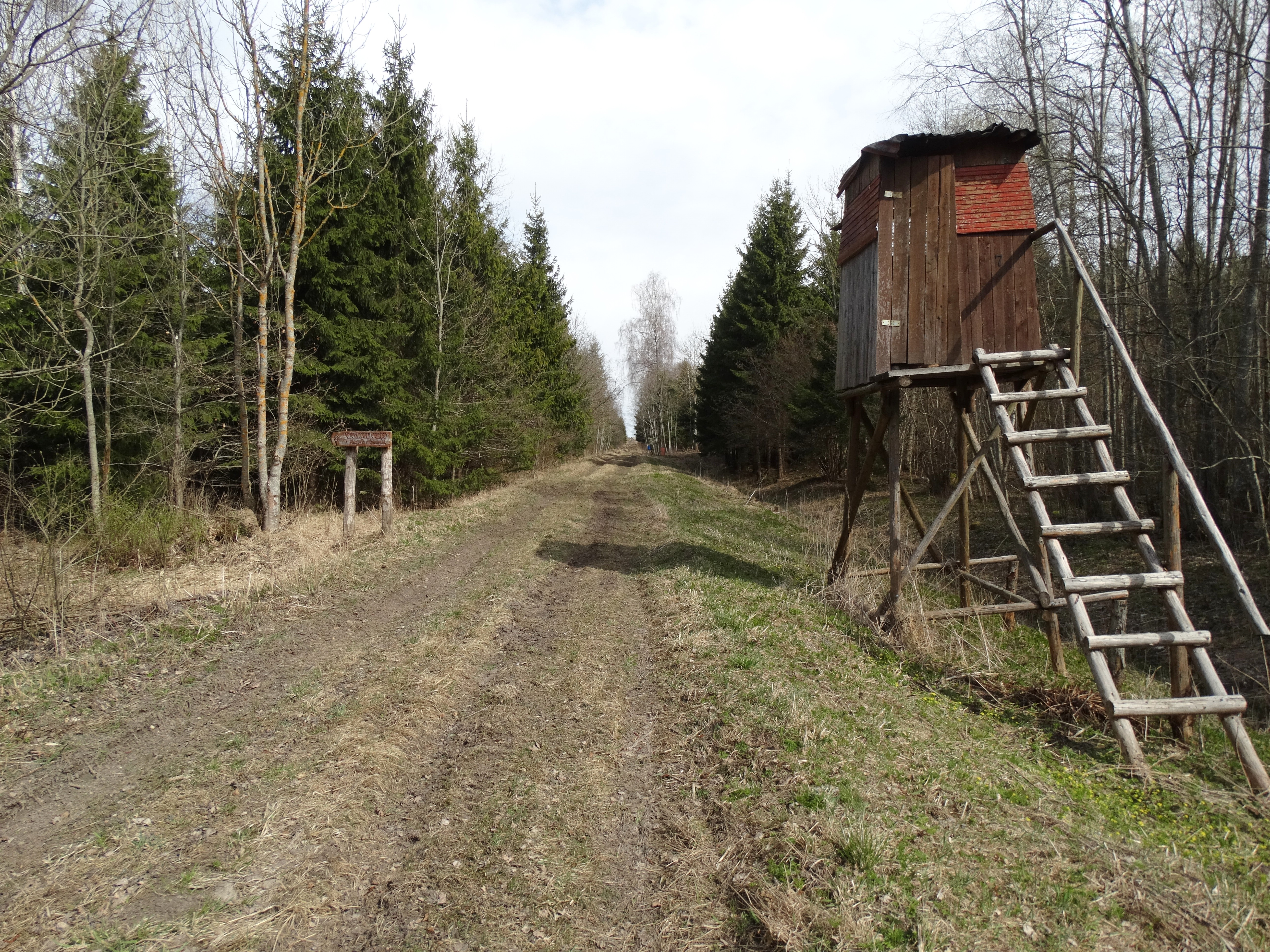 Baisogala forest, hunters' tower, Radviliškis District, Lithuania